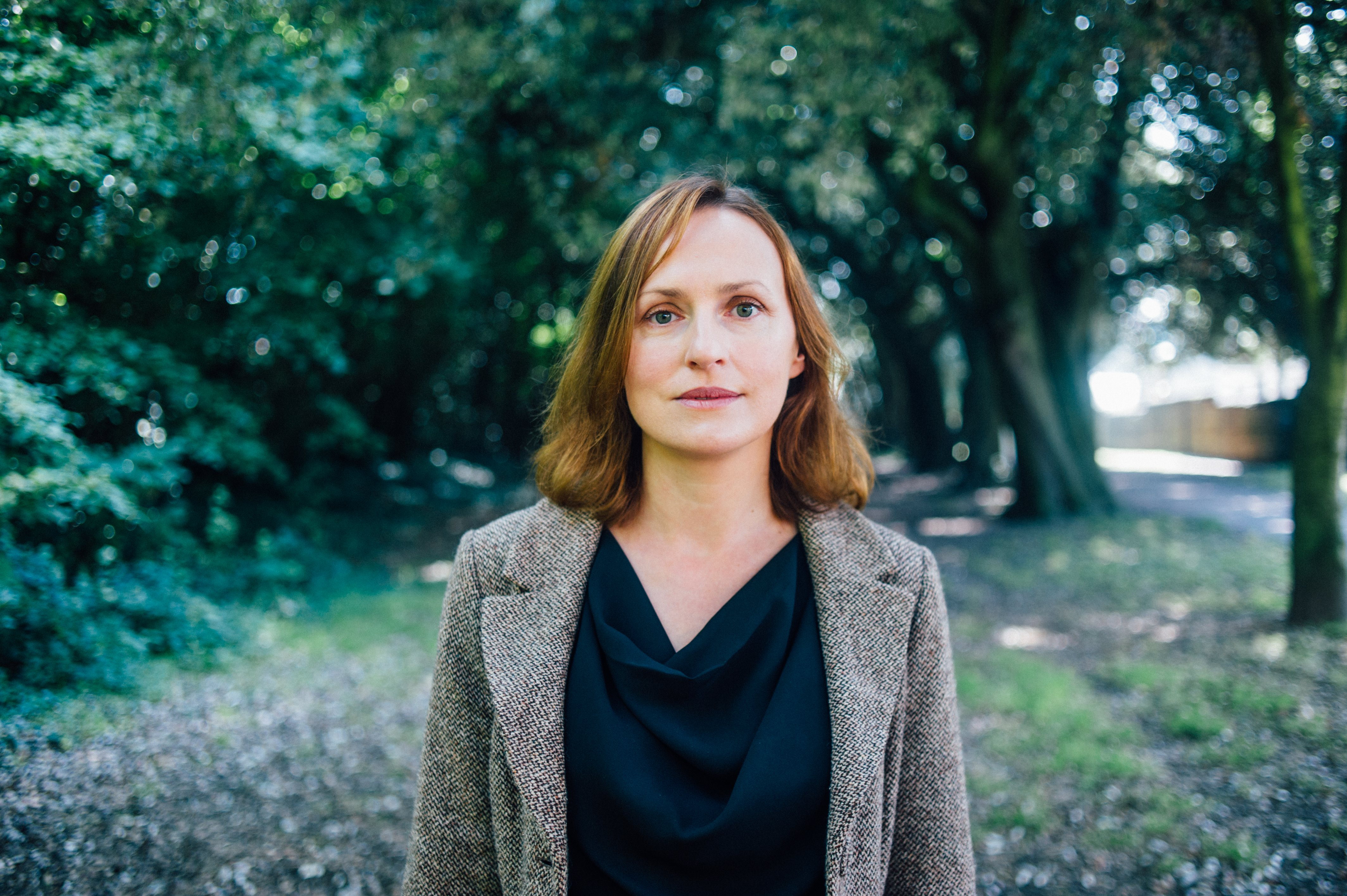 Francesca Rhydderch, trees